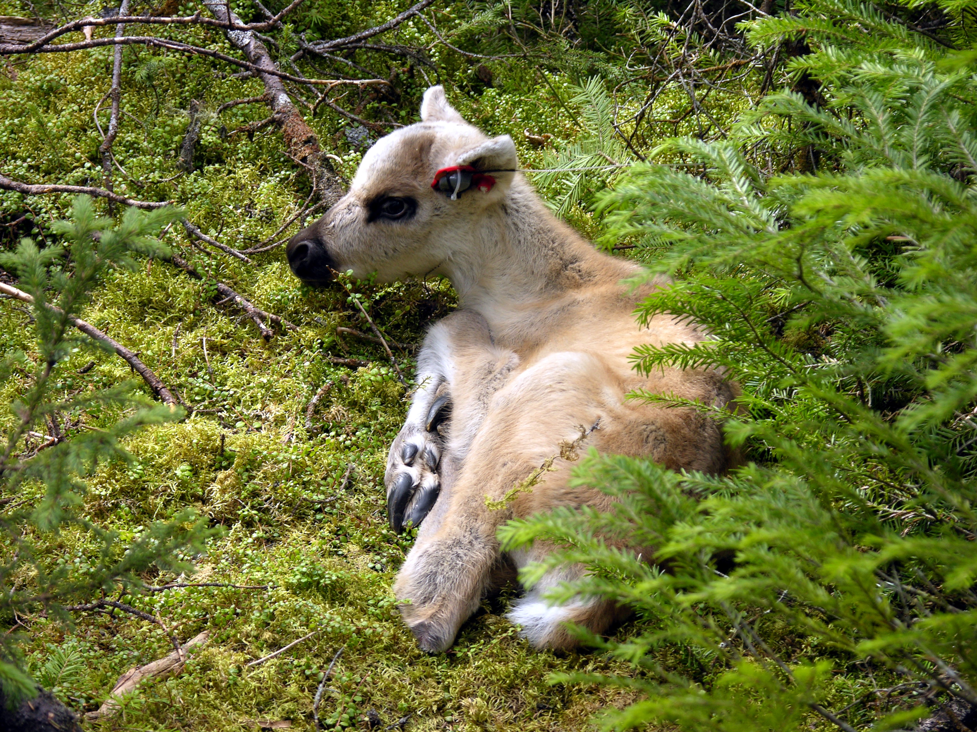 Un faon caribou muni d'un émetteur à l'oreille pour le suivi de la prédation